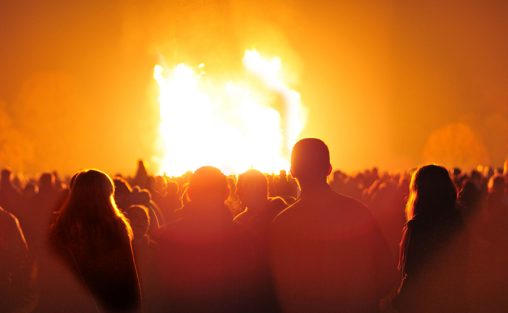 "Worship" - photograph of spectators around a bonfire at Himley Hall near Dudley